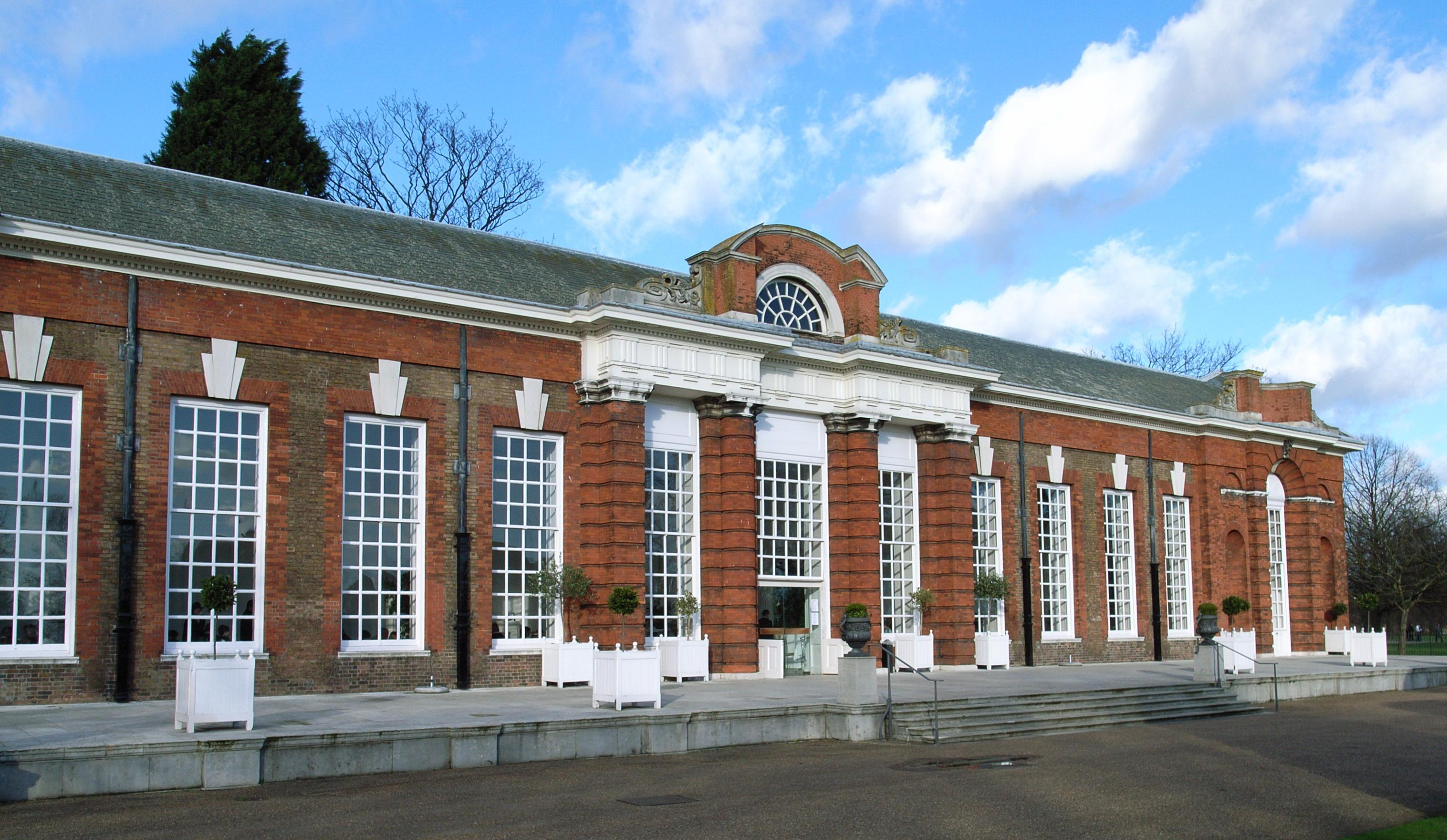 The Orangery (1704-5), Kensington Palace, by Nicholas Hawksmoor